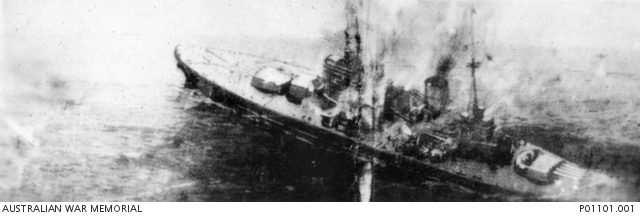 AWM Caption: AT SEA, OFF MALAYA, 1941-12-10. THE BRITISH BATTLESHIP HMS PRINCE OF WALES SINKING AFTER BEING HIT BY JAPANESE BOMBS AND TORPEDOES ON 1941-12-10. Z FORCE, COMPRISING THE BATTLESHIPS PRINCE OF WALES AND HMS REPULSE AND FOUR DESTROYERS, INCLUDING THE AUSTRALIAN VESSEL HMAS VAMPIRE, HAD LEFT SINGAPORE ON 1941-12-08.